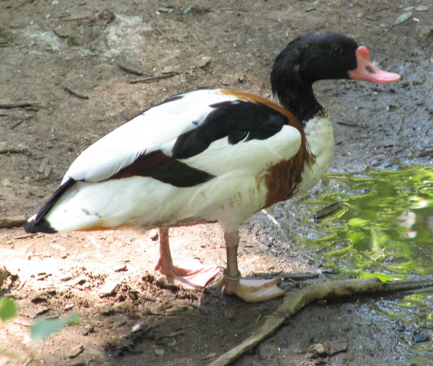 Common Shelduck